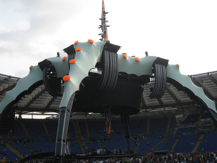 The stage in Rome.